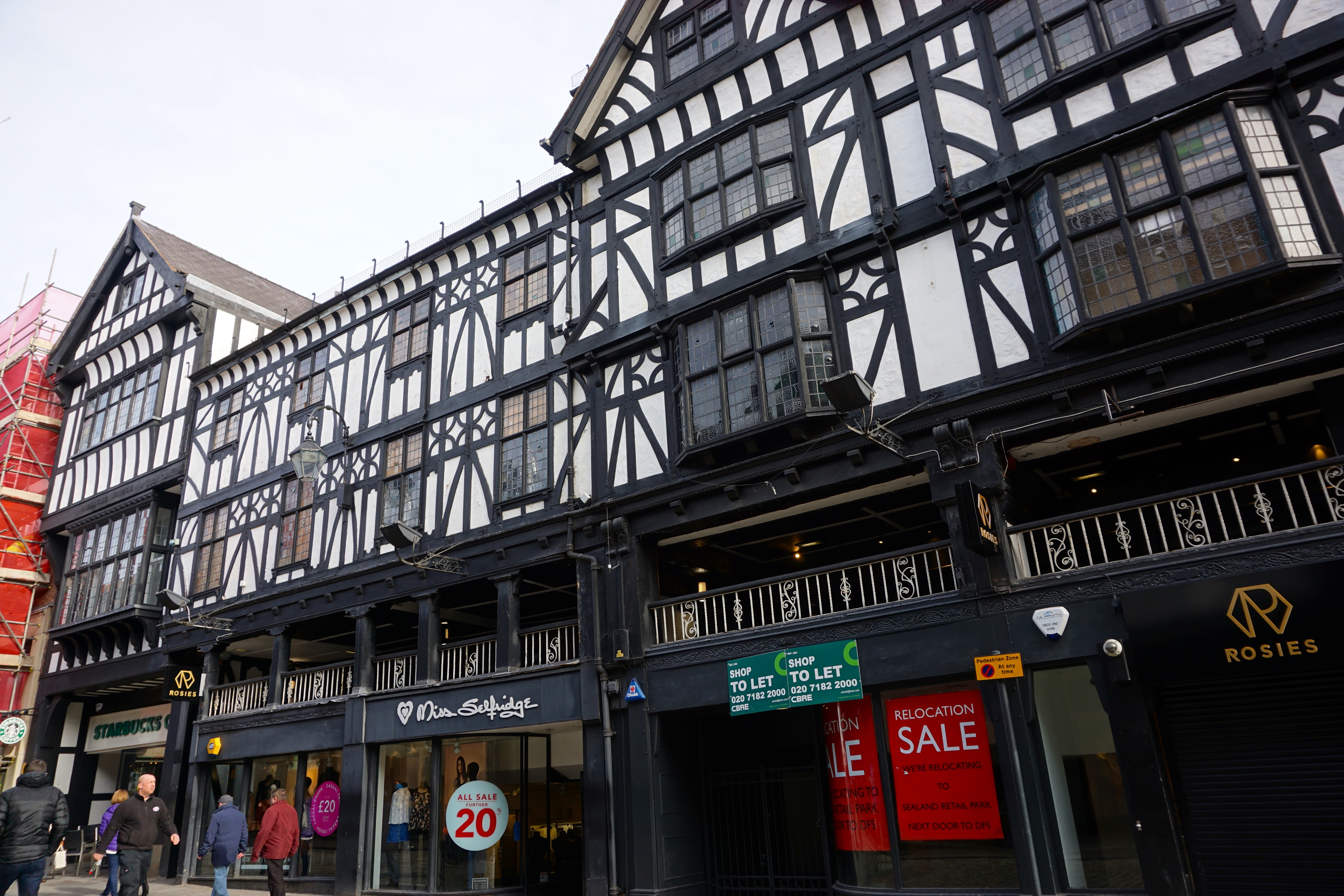 The Rows - Chester, Cheshire